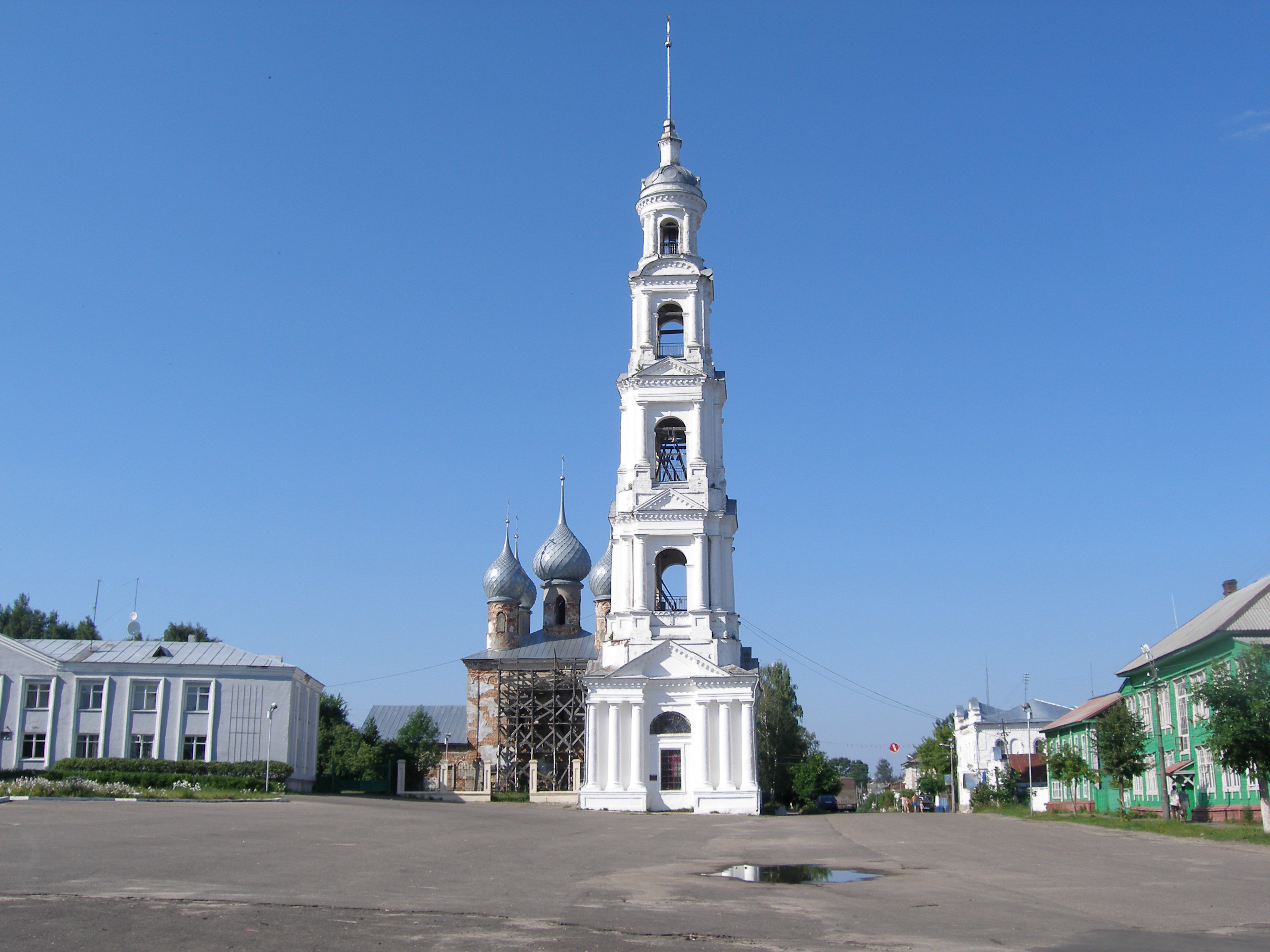 Urevec, Ivanovskaya obl